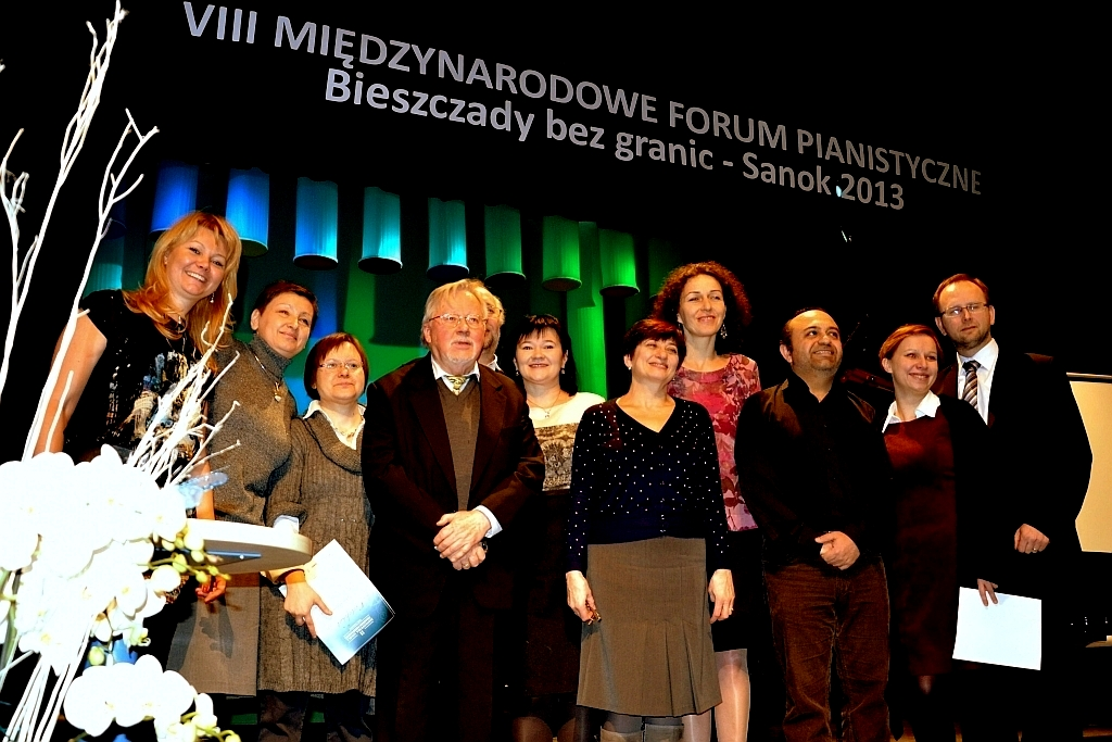 Vytautas Landsbergis